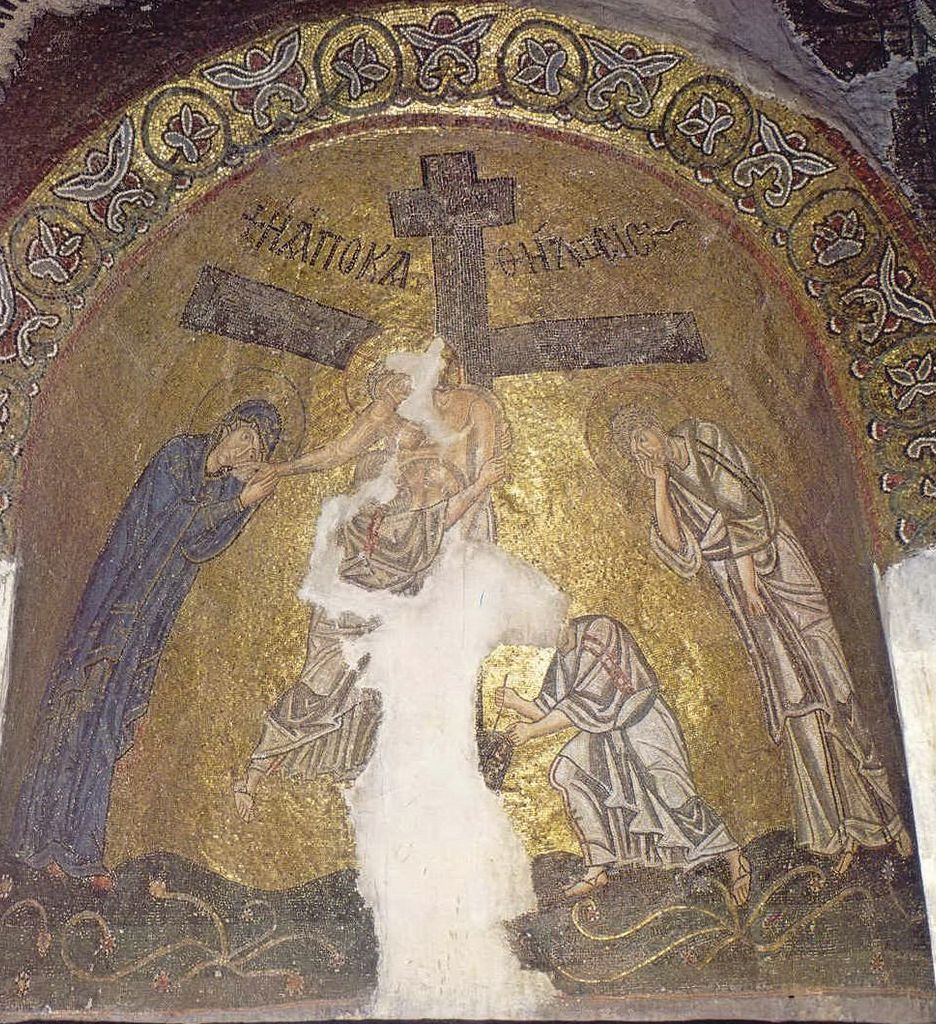 Descent from the Cross (mosaic in Nea Moni)